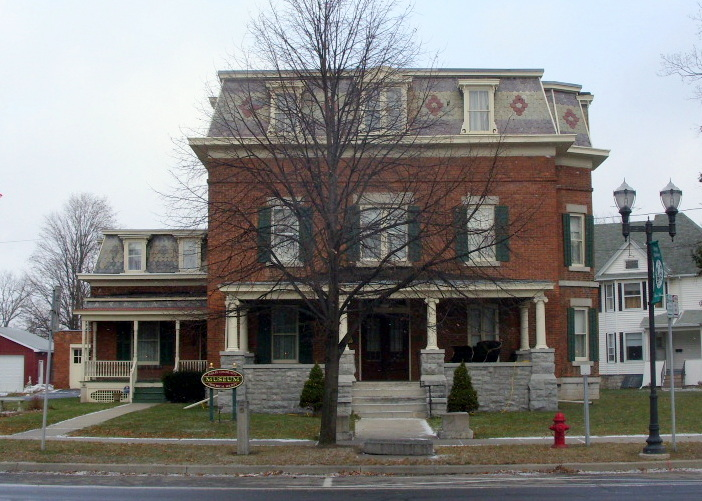 Dr. John Quincy Howe House — Phelps, Upstate New York.